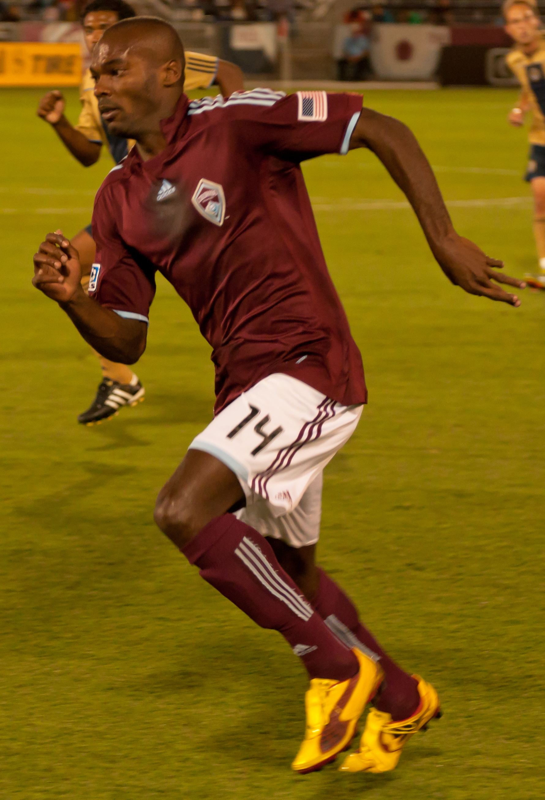 Omar Cummings playing in a game with the Colorado Rapids (MLS) 2010